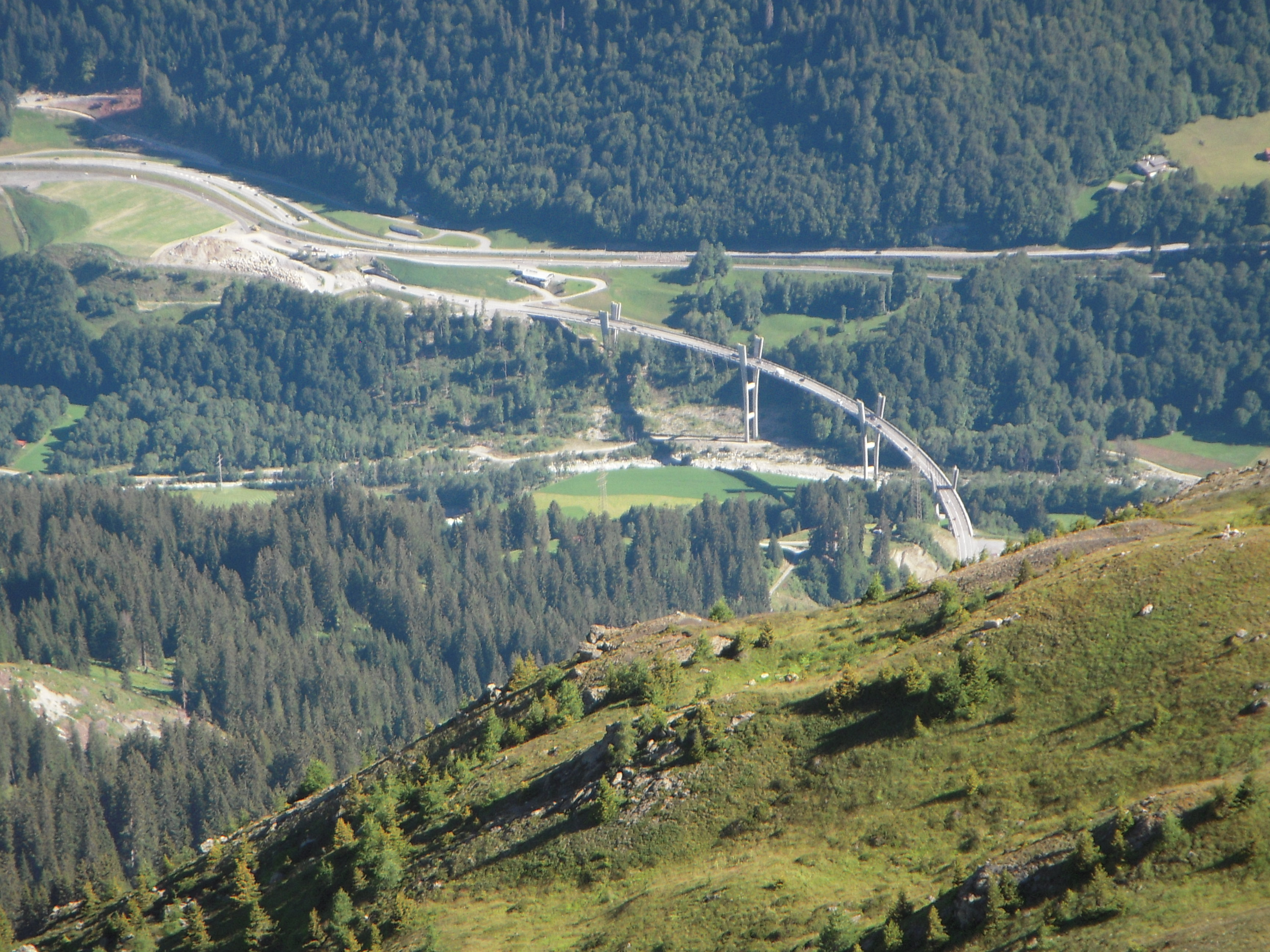 Den spectacular bridge, Sunnibergbrücke, at Klosters in Graubünden, Sweitzerland. August 18, 2012.